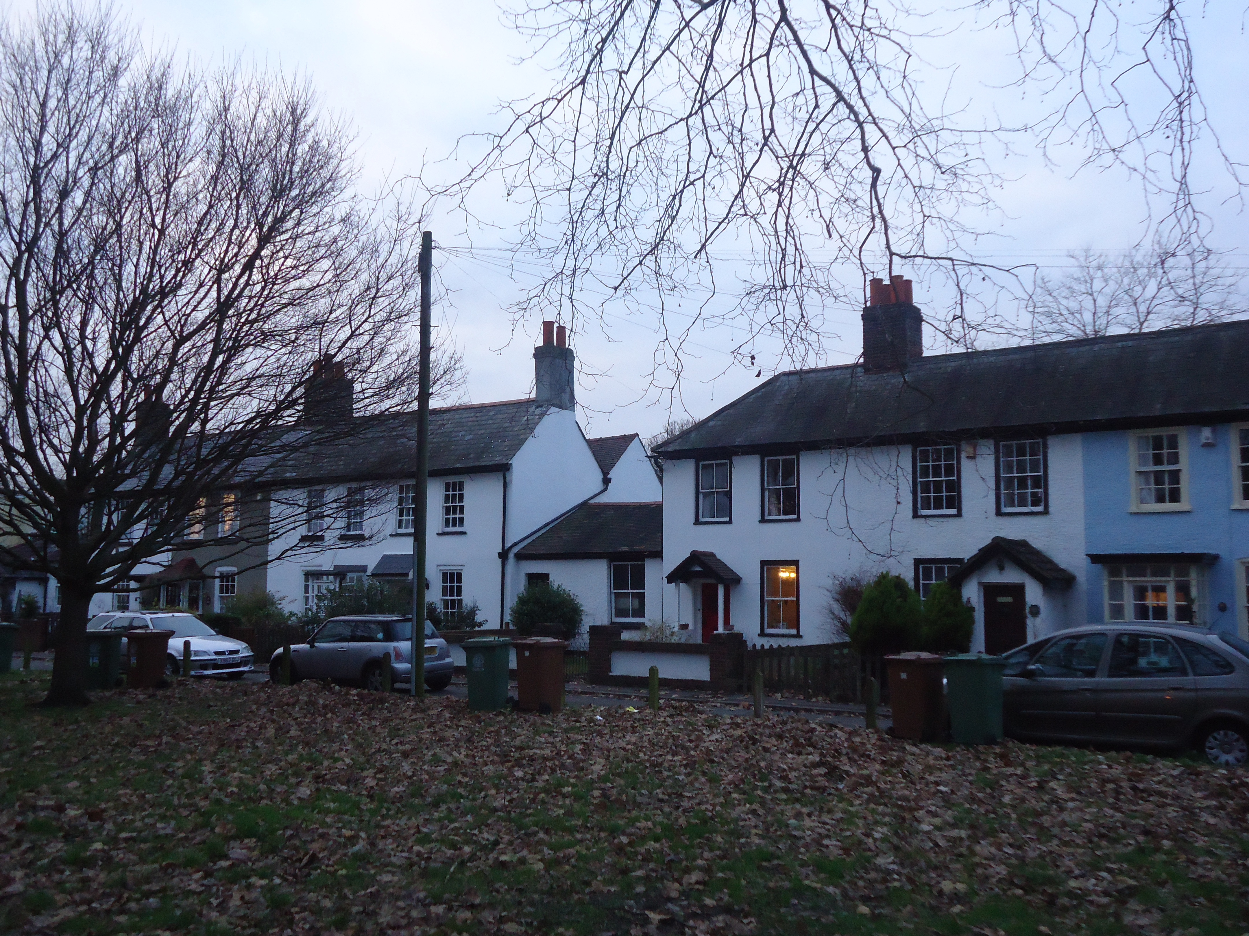 Very pretty group of cottages set back from Hackbridge Road behind a small green